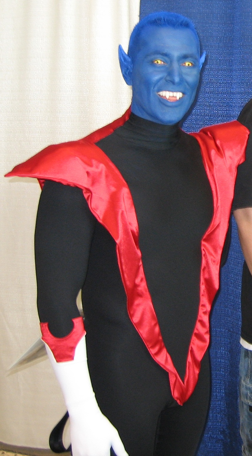 Cosplay of Nightcrawler